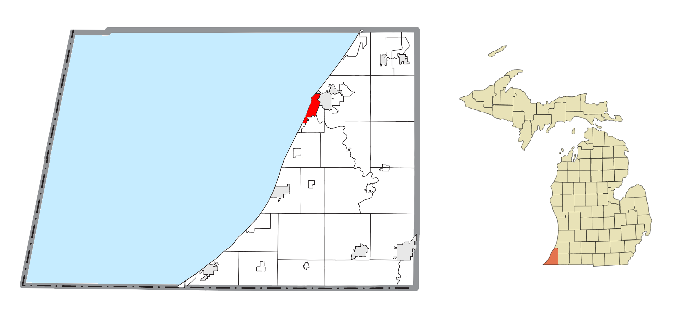 St. Joseph, MI